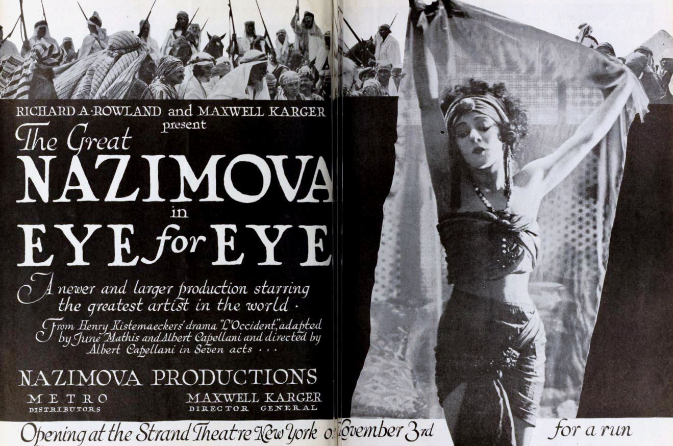 Advertisement for the American film Eye for Eye (1918) with Alla Nazimova, on pages 14 and 15 of the October 26, 1918 Exhibitors Herald.